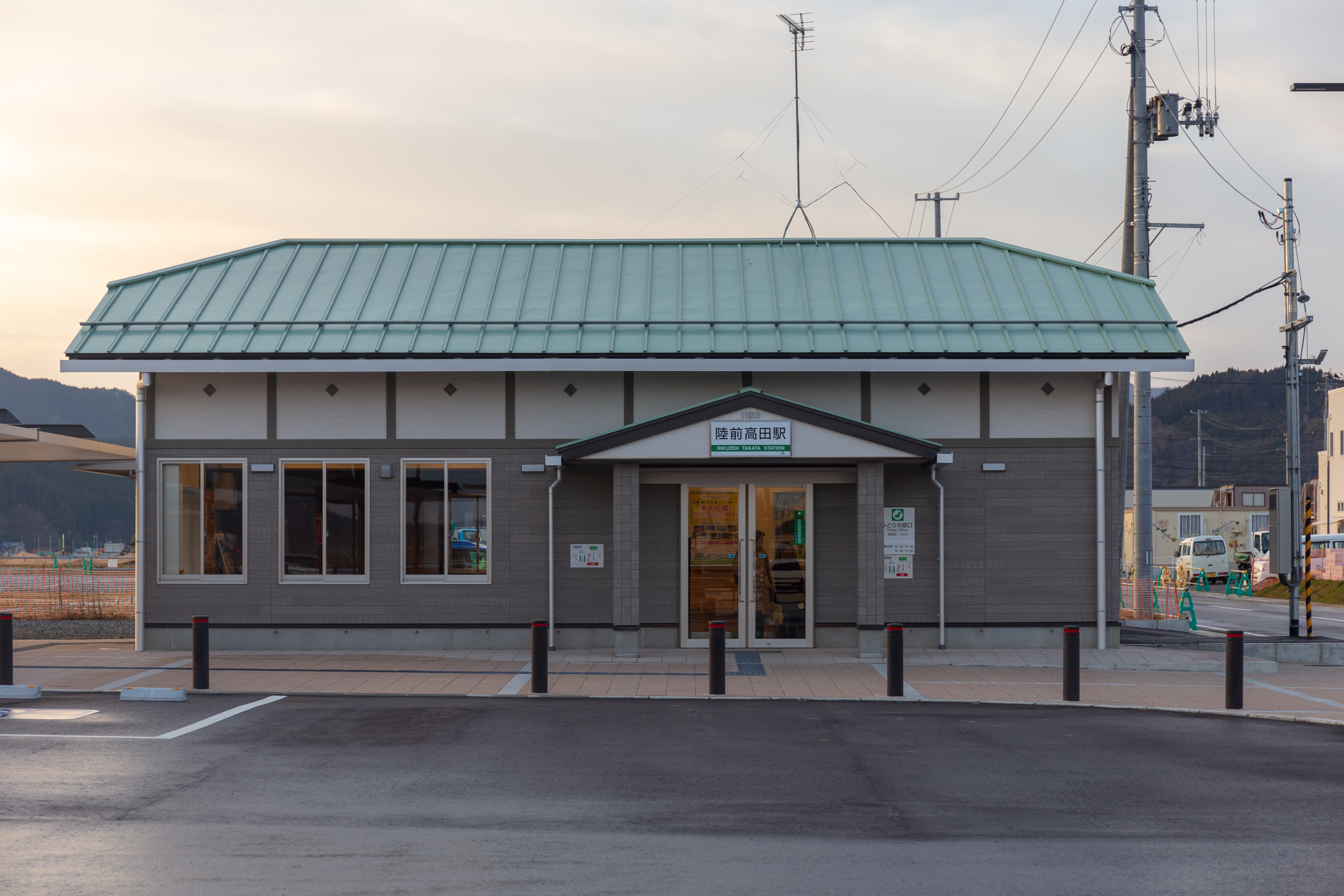 Rikuzen-Takata Station on the East Japan Railway Company (JR East) Ofunato Line BRT in Rikuzentakata City, Iwate Prefecture, Japan